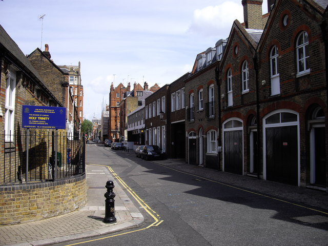 Mews Houses in Pavilion Road